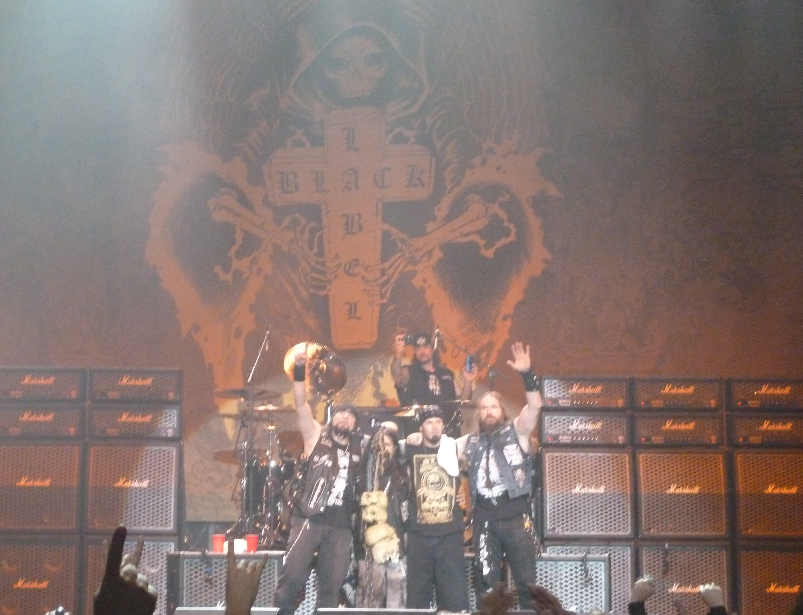 Black Label Society performing at Allen Event Center in Allen, Texas on October 16, 2011